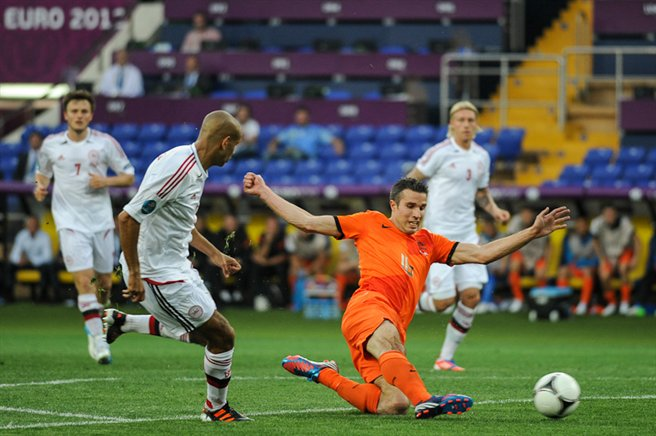 UEFA Euro 2012 match between Netherlands and Denmark that took place in Kharkiv. Final result was 0:1 (Krohn-Delhi)